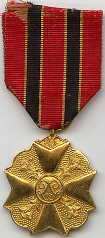 Civic Medal 1st class with ribbon for exceptional acts of bravery, devotion or humanity (Belgium)